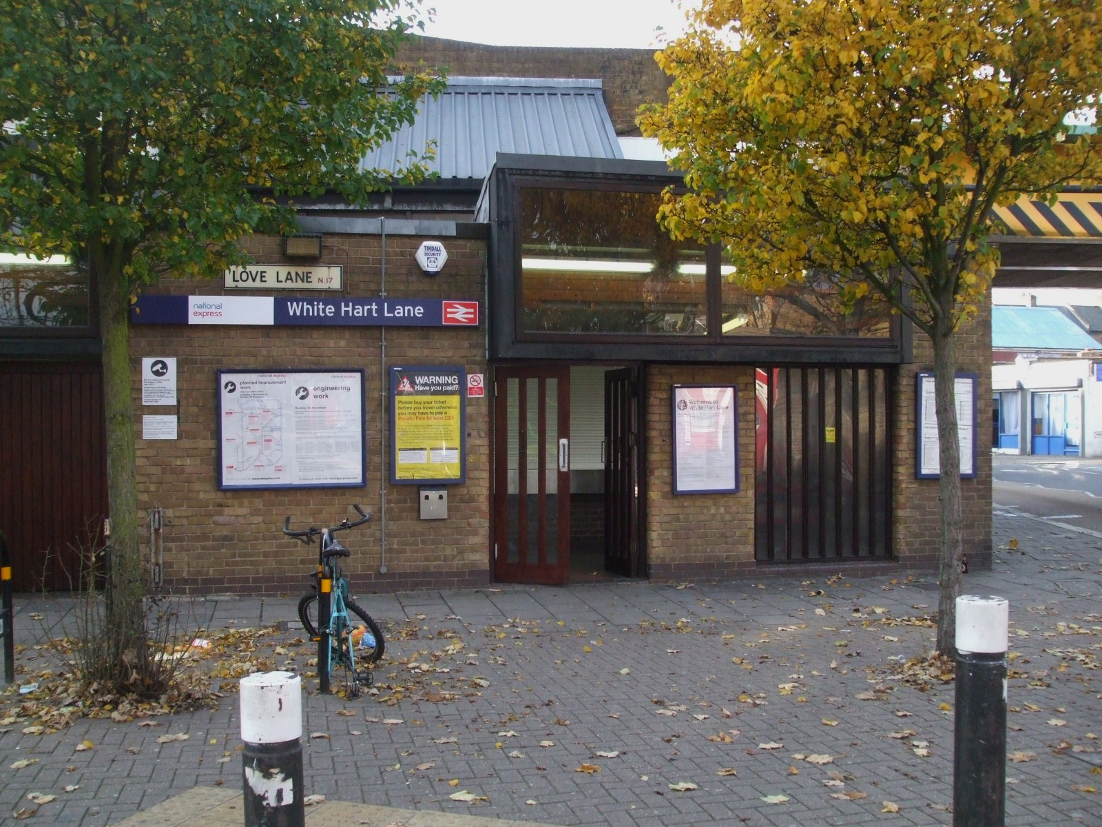 White Hart Lane station entrance on the London-bound side